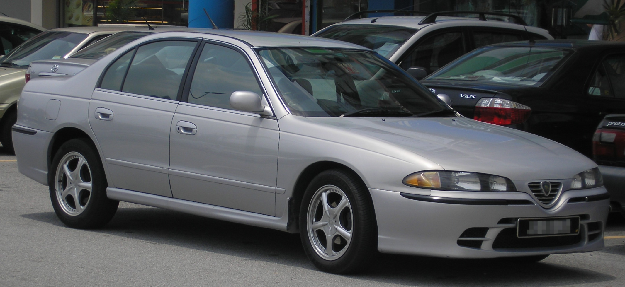 Front-side shot of a first generation, second facelift Proton Perdana (V6), in Serdang, Selangor, Malaysia.